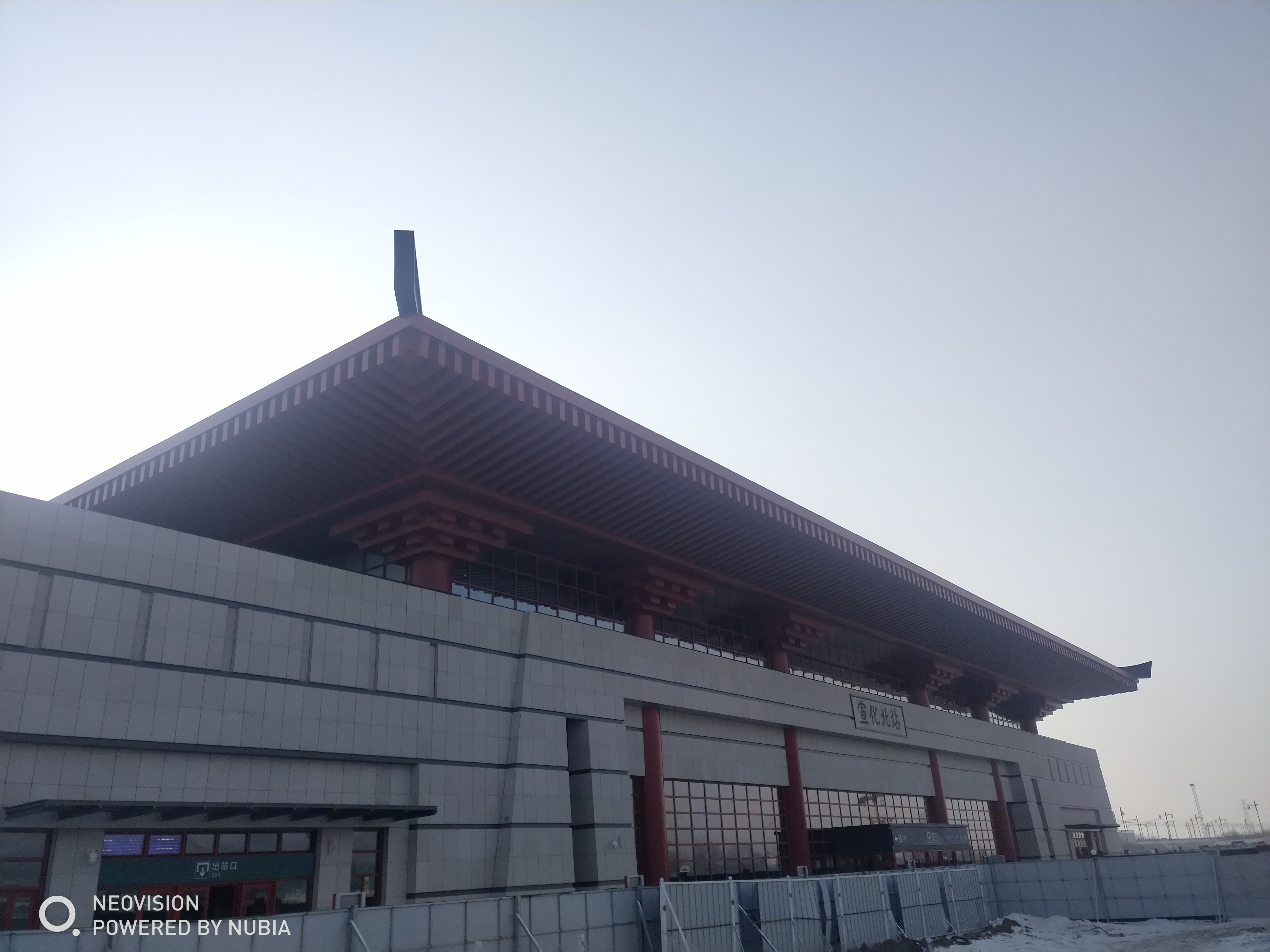 Main Entrance of Xuanhua North Railway Station, taken from nort-east side. Located in Xuanhua Distict, Zhangjiakou City, Hebei Province, China.